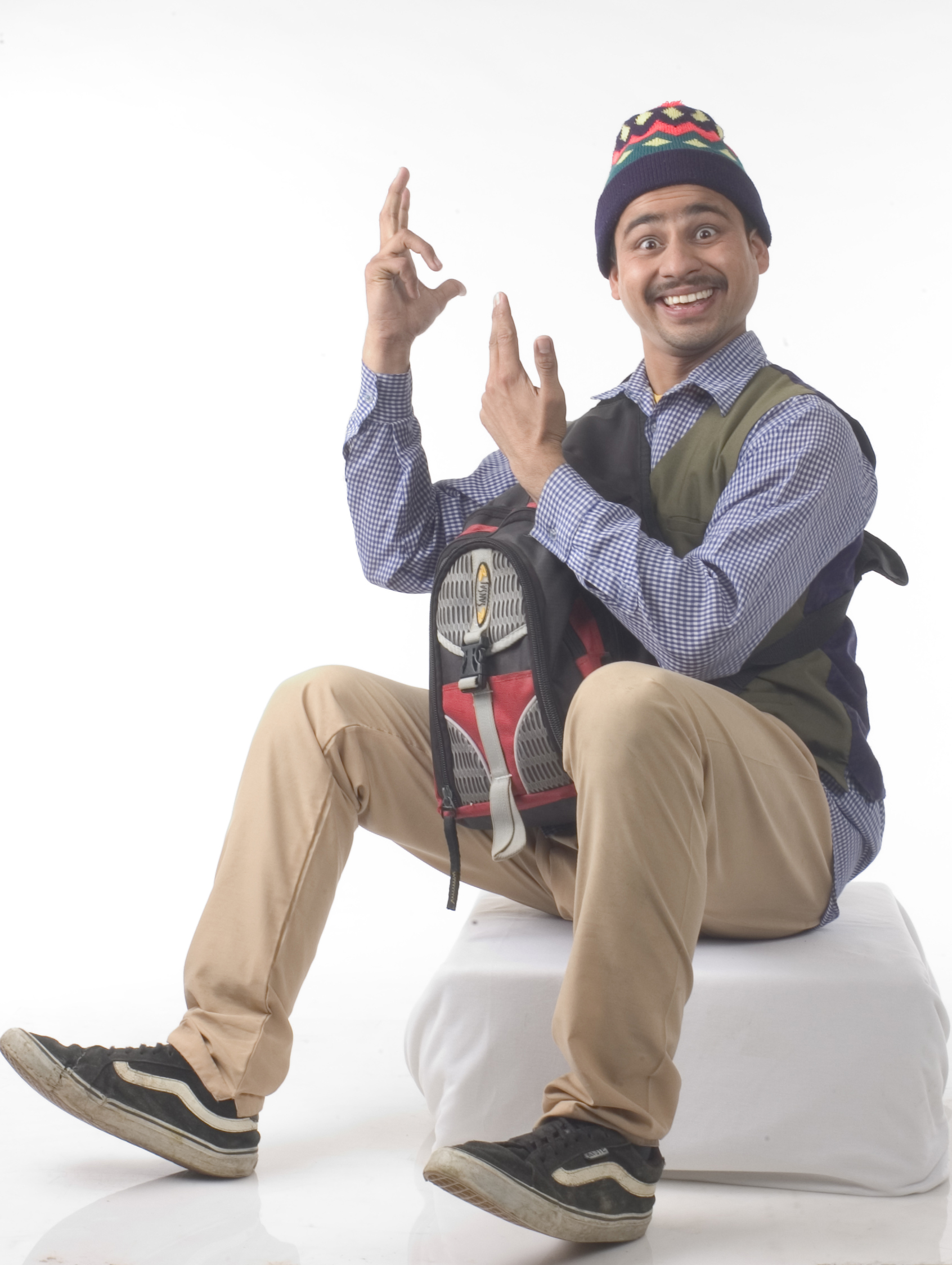 Gopal Dhakal Chhande during photo shoot of Shalimar Cement Advertisement